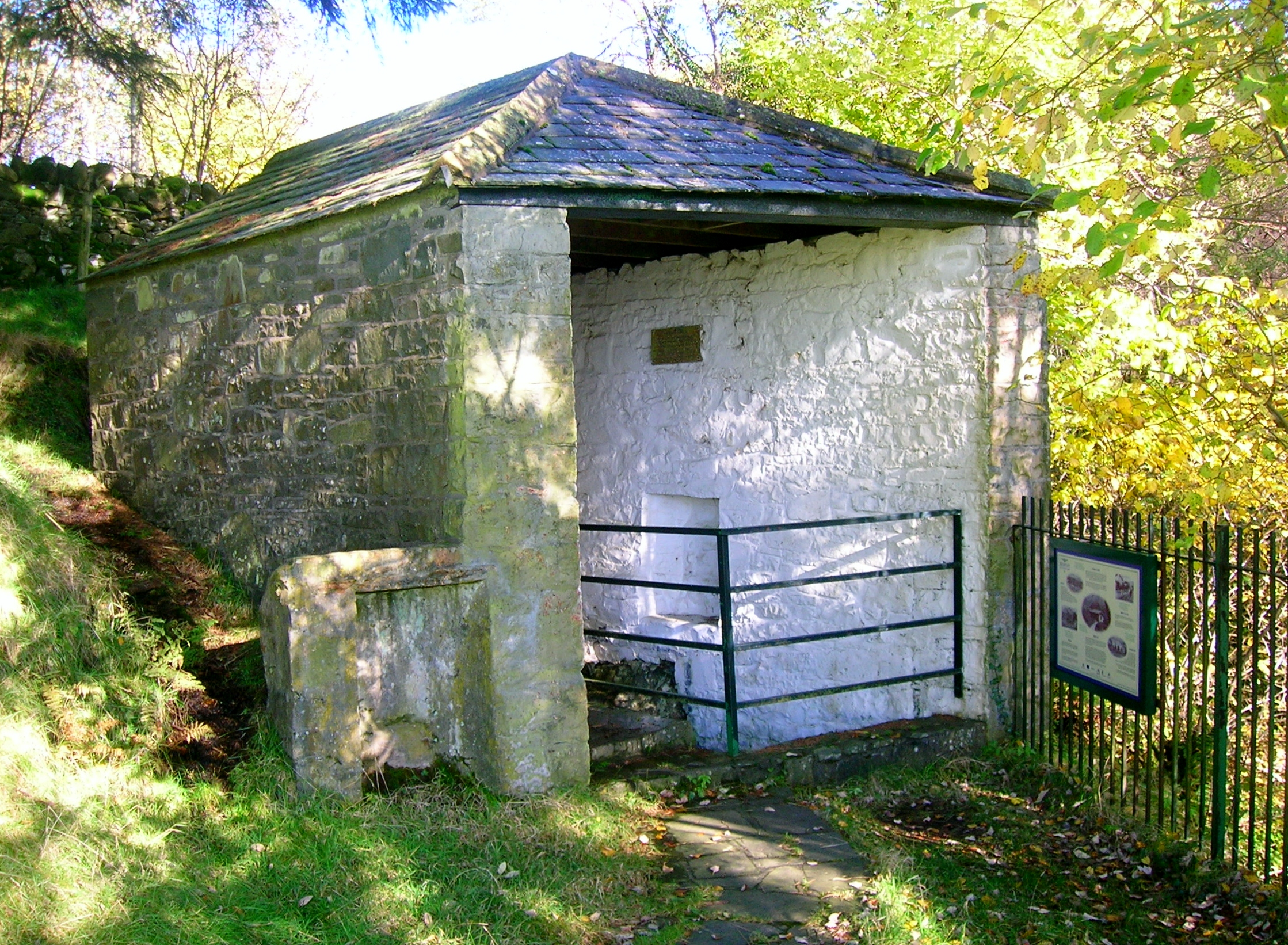 The old sulphurous water well at Moffat, as restored, Dumfries & Galloway, Scotland.